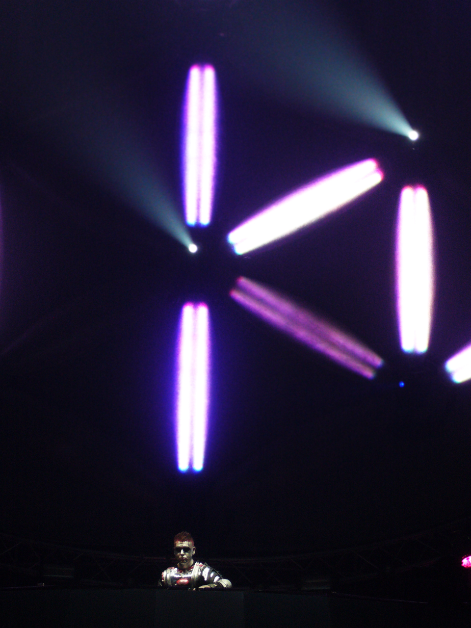 Technoboy live at Qlimax 2008